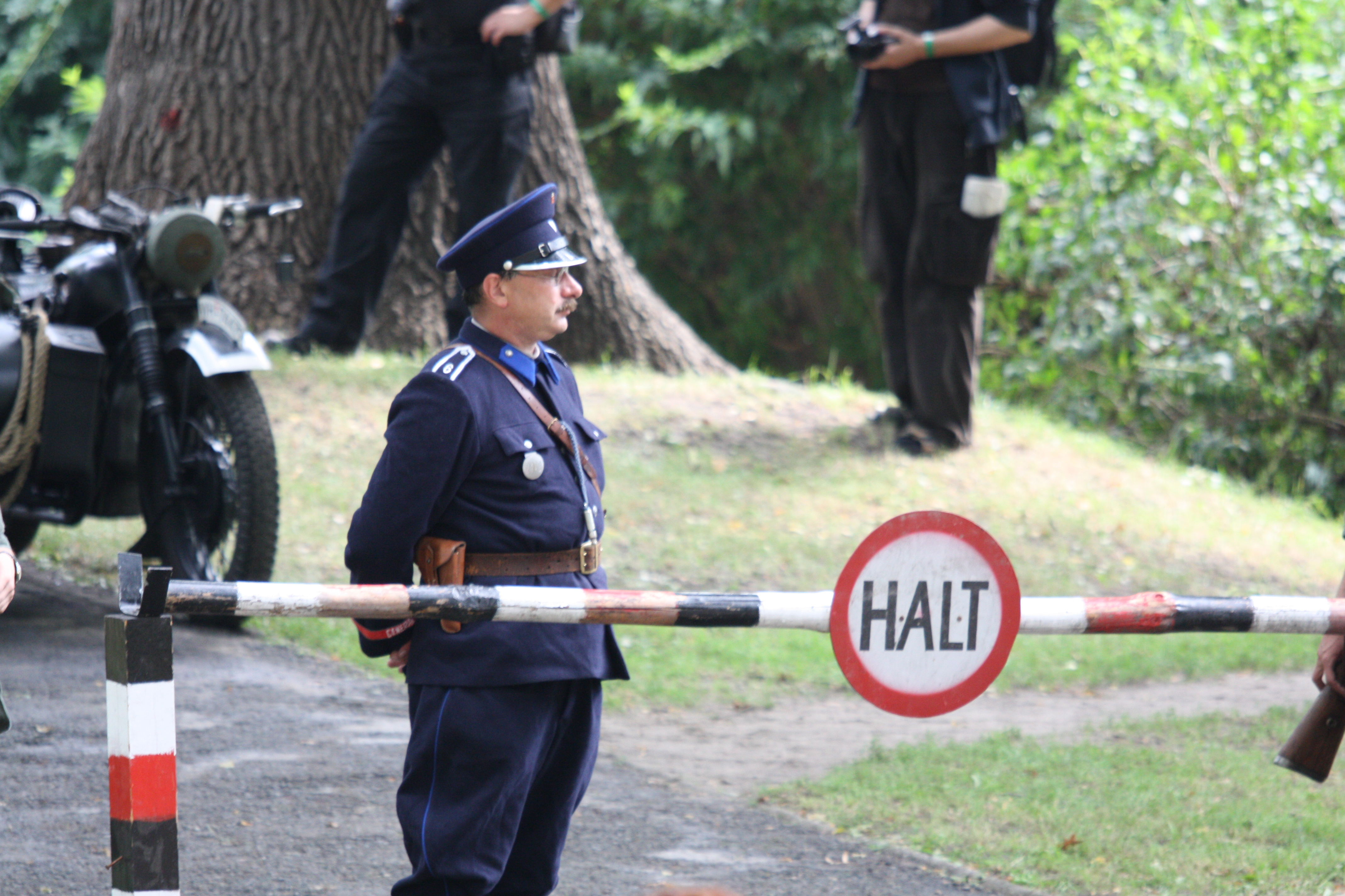 Warsaw Uprising reenactments - Mokotów'44